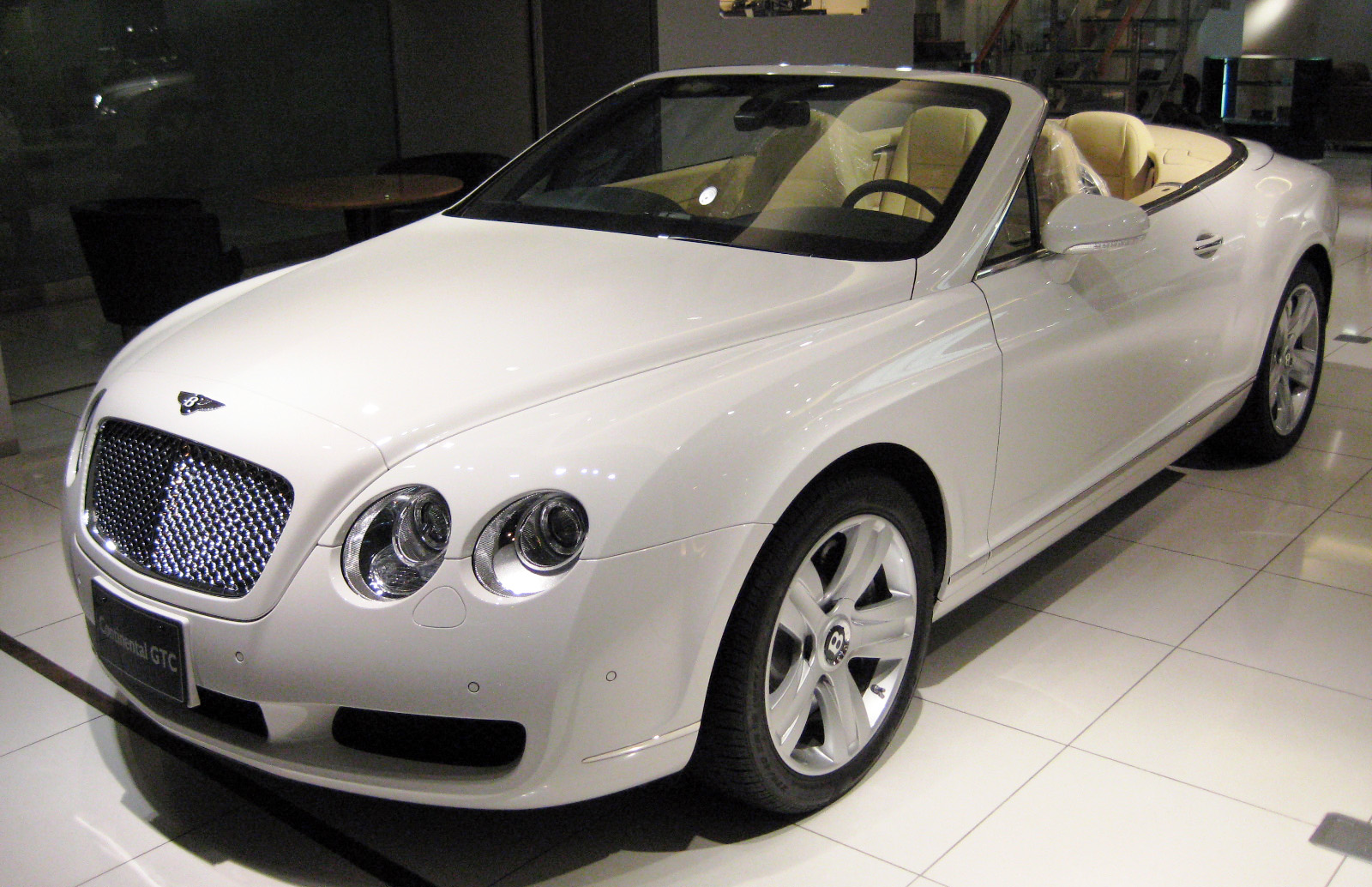 Bentley Continental GTC in Cornes Aoyama Showroom